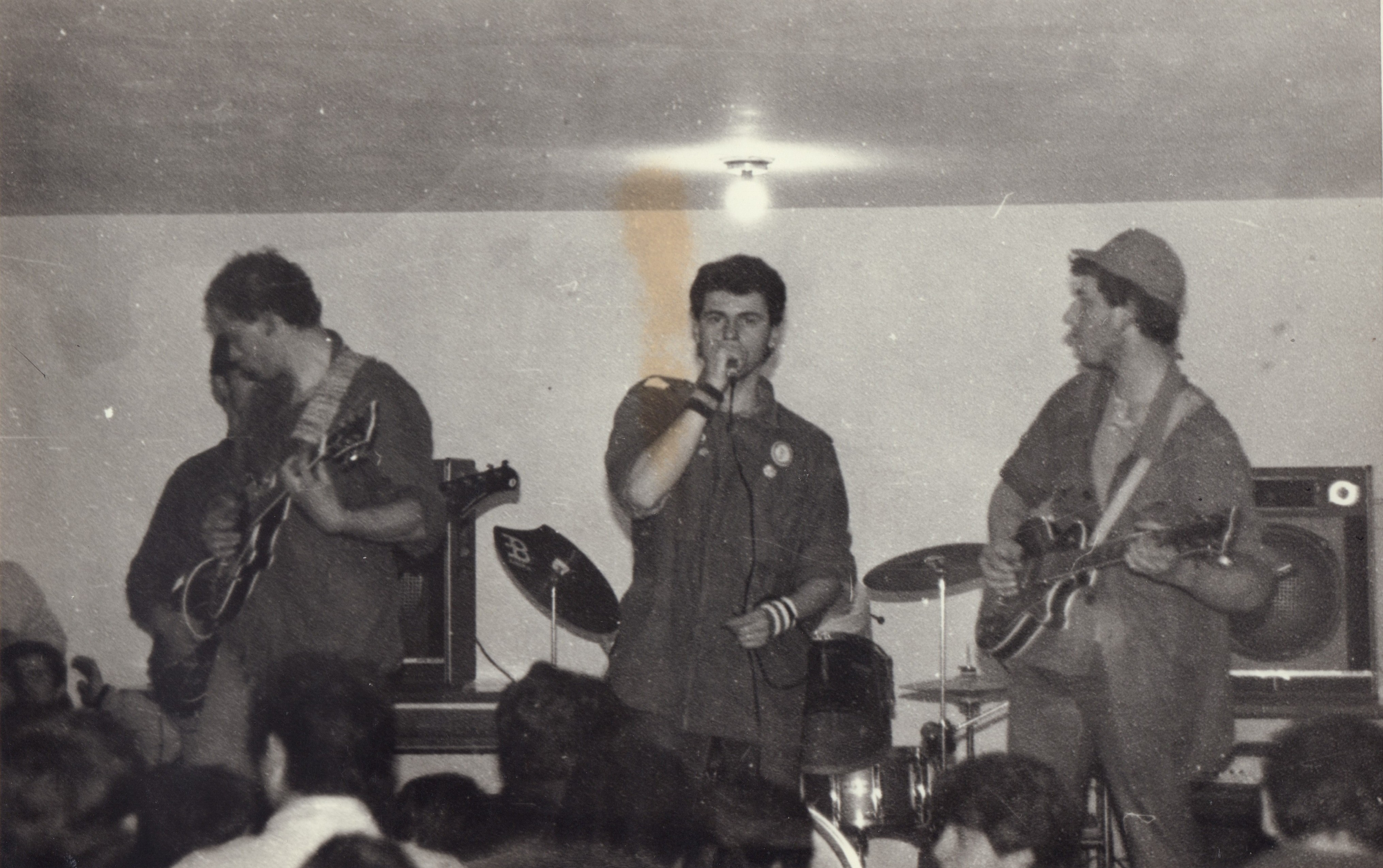 Jolly Jumper 1985.